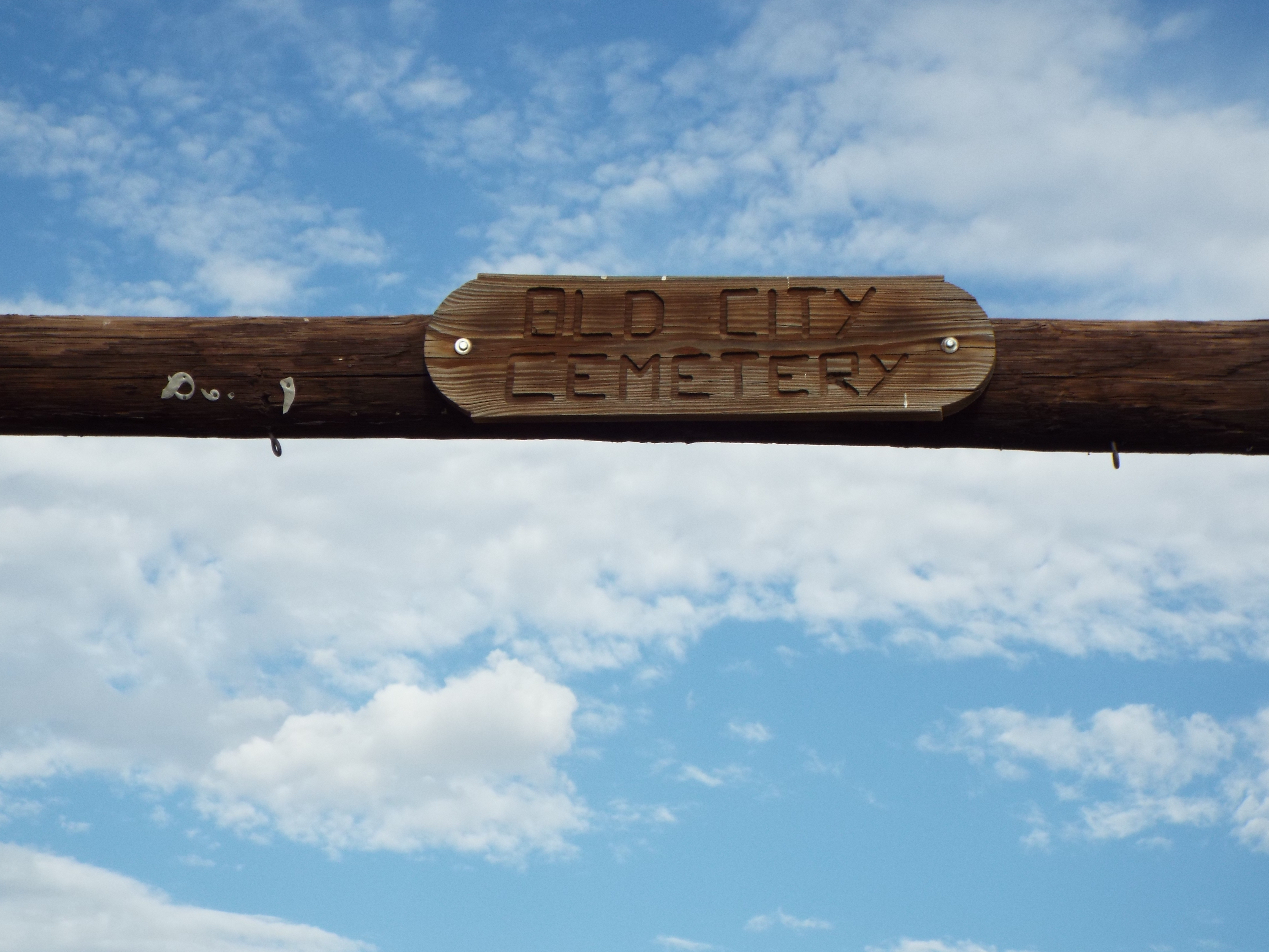 Historic Willcox Pioneer Cemetery-1880 in Willcox, Arizona